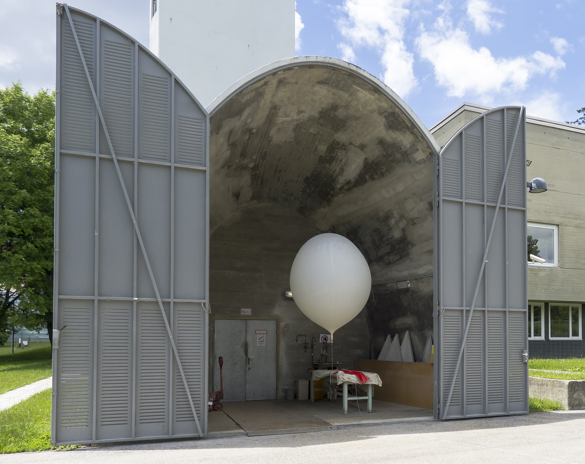 Central Institution for Meteorology and Geodynamics in Vienna 19